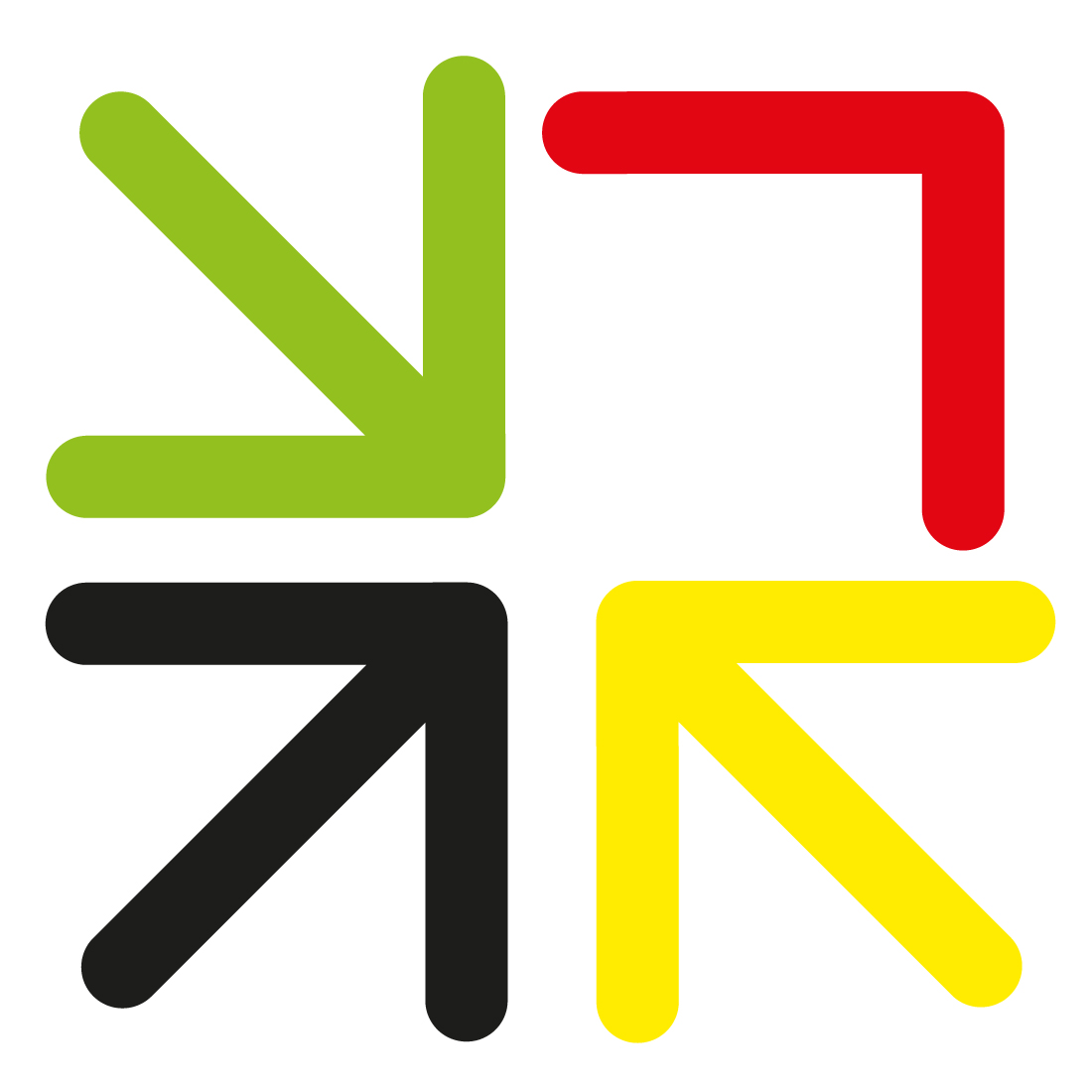 Civilmdia 2017 - Logo